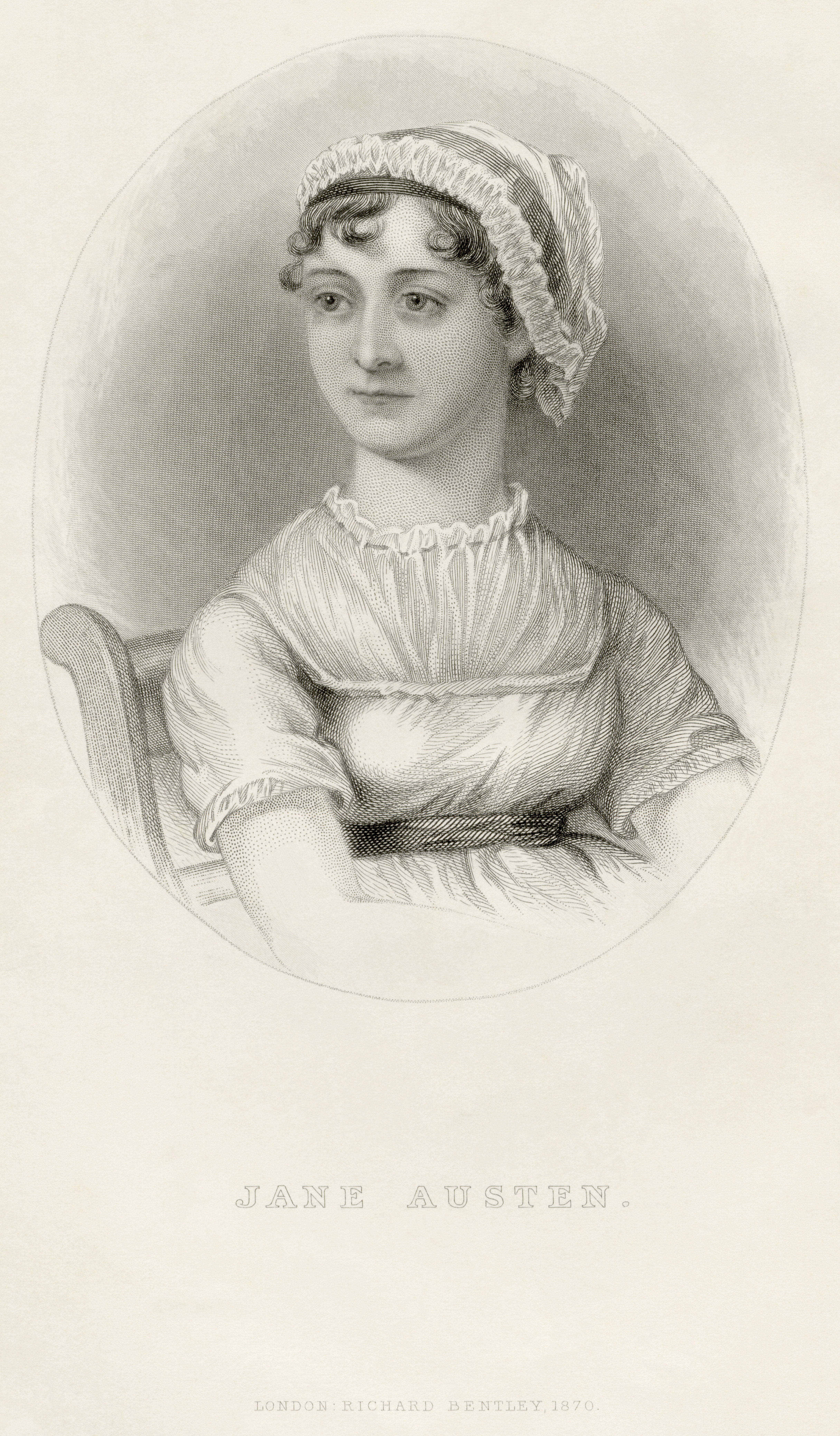 Portrait of Jane Austen, from the memoir by J. E. Austen-Leigh (1798-1874). All other portraits of Austen are generally based on this, which is itself based on a sketch by Cassandra Austen